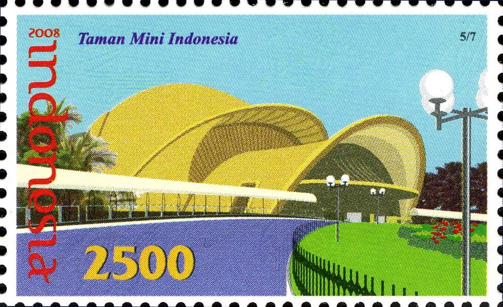 Stamps of Indonesia